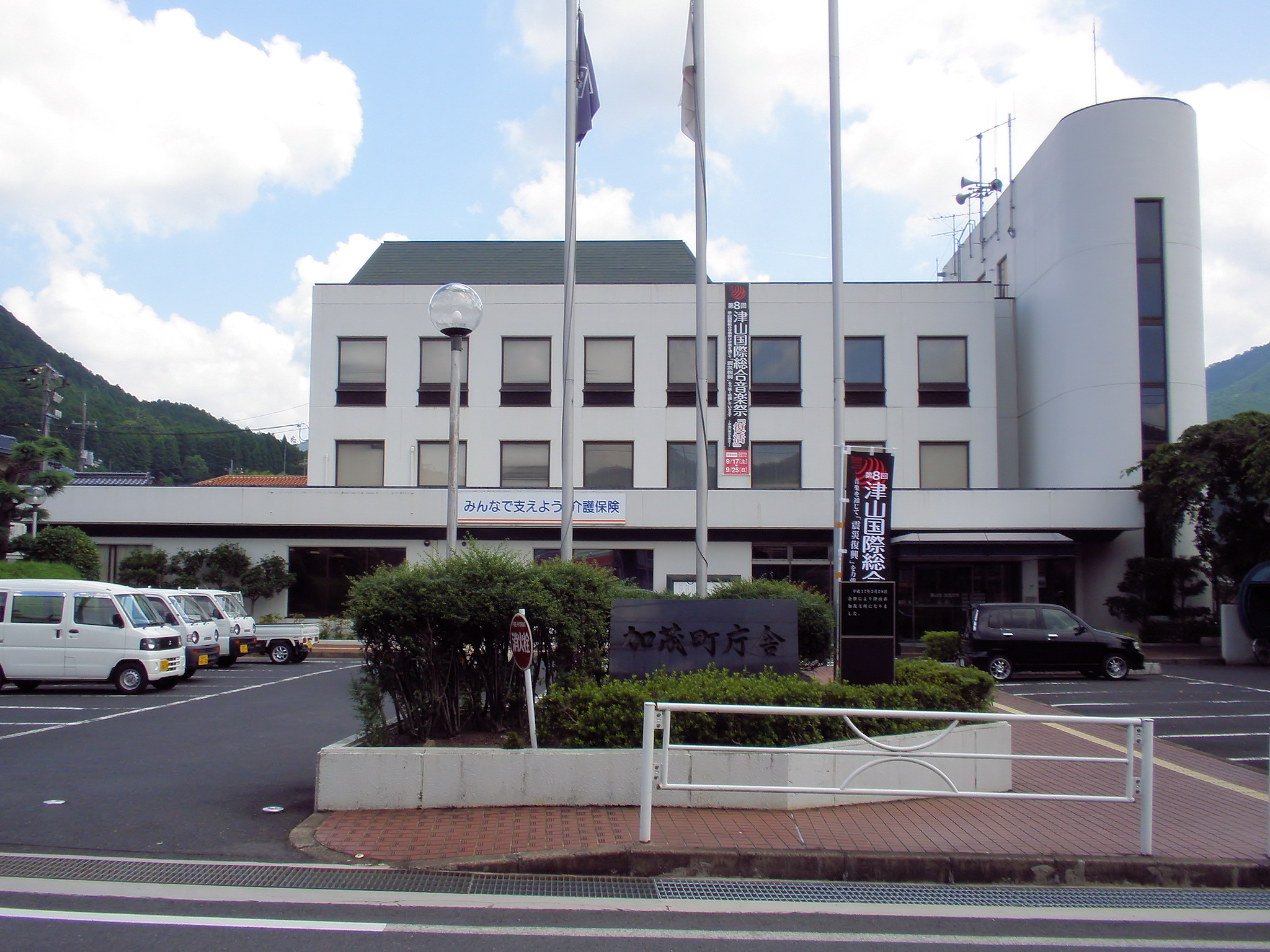 Tsuyama city office Kamo branch Former Kamo town office (1980.1 - 2005.2.27)